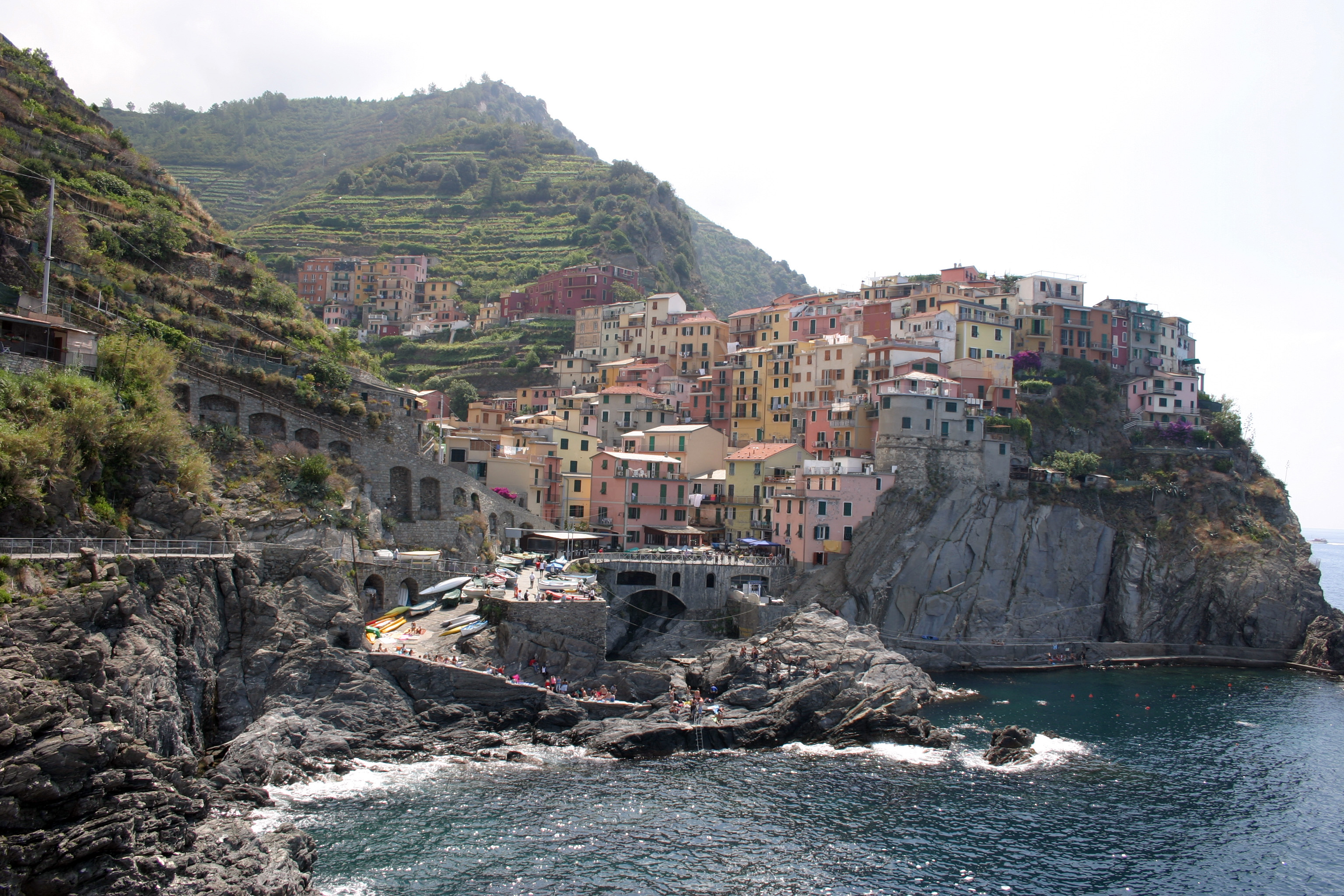 Manarola in the Cinque Terre, Liguria